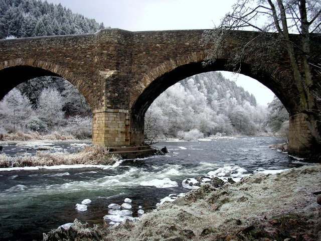 Yair Bridge The Tweed Starting to ice over